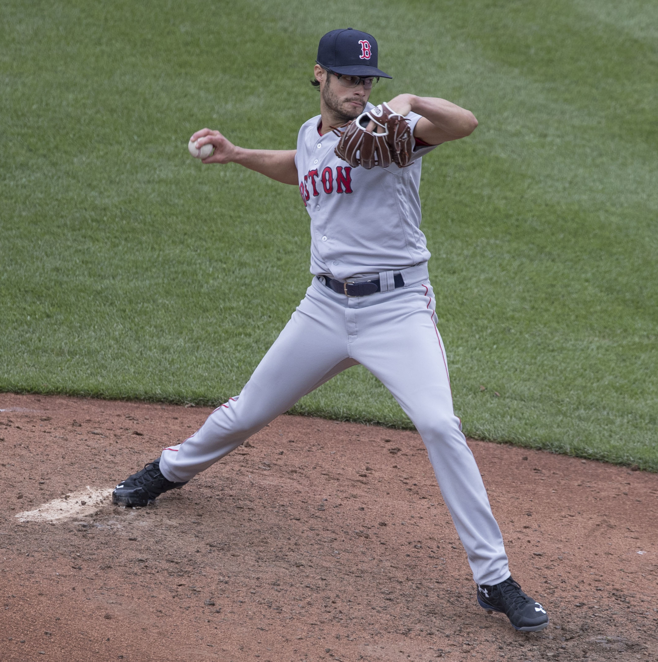 Red Sox at Orioles 4/23/17